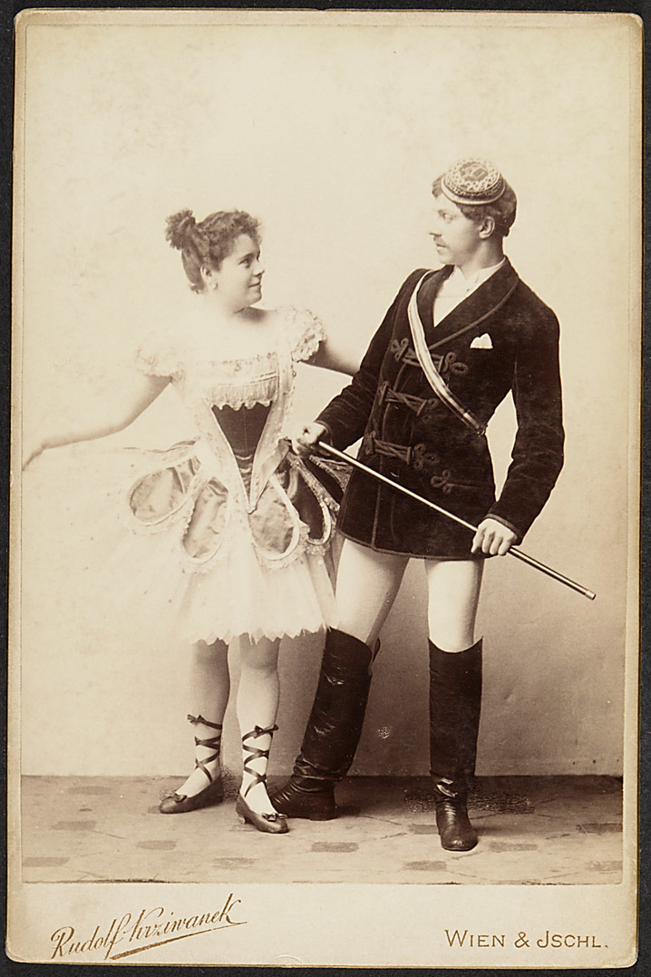 Rudolf Krziwanek (Fotograf): Wilhelmine Rathner und Carl Godlewski (Tänzer) im Ballett "Burschenliebe". Die Choreografie ist von Joseph Haßreiter. Die Ausstattung, Kostüme von Franz Xaver Gaul.